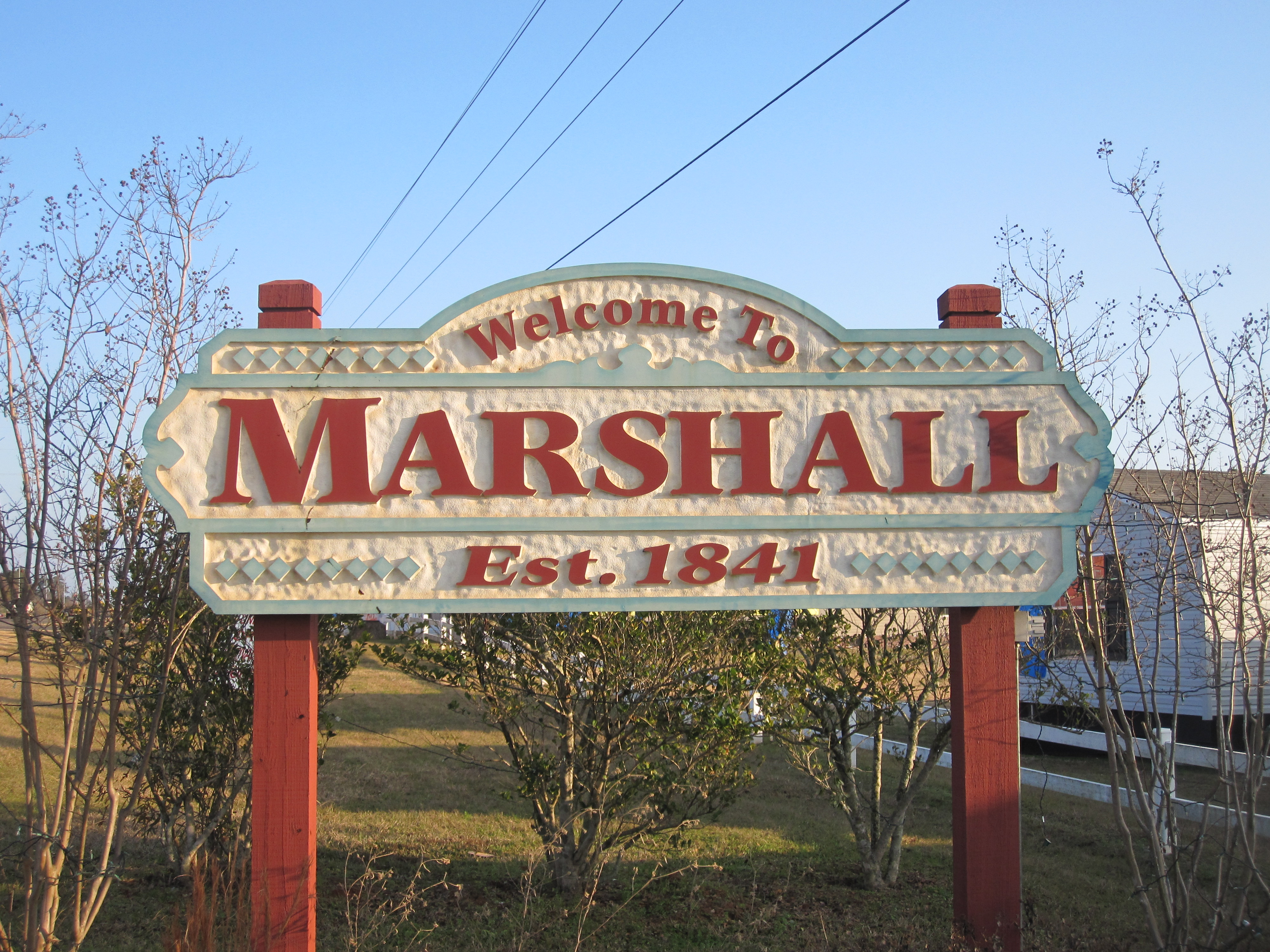 Welcome sign in Marshall, Texas